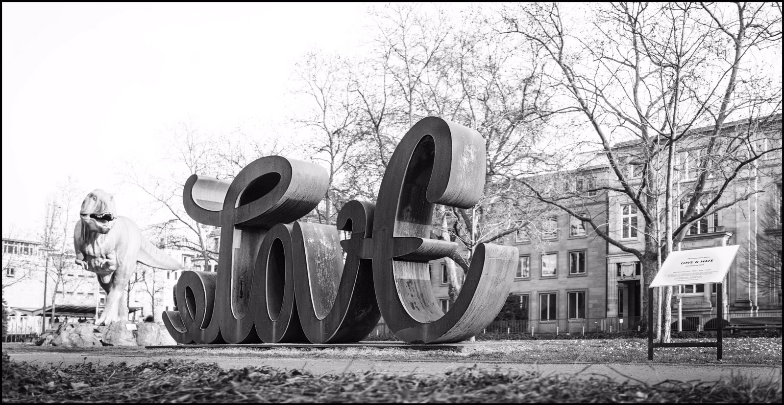 Sculpture Love/Hate by Mia Florentine Weiss. Permanent installation oinfront of the Senckenberg Museum, Frankfurt a. M.